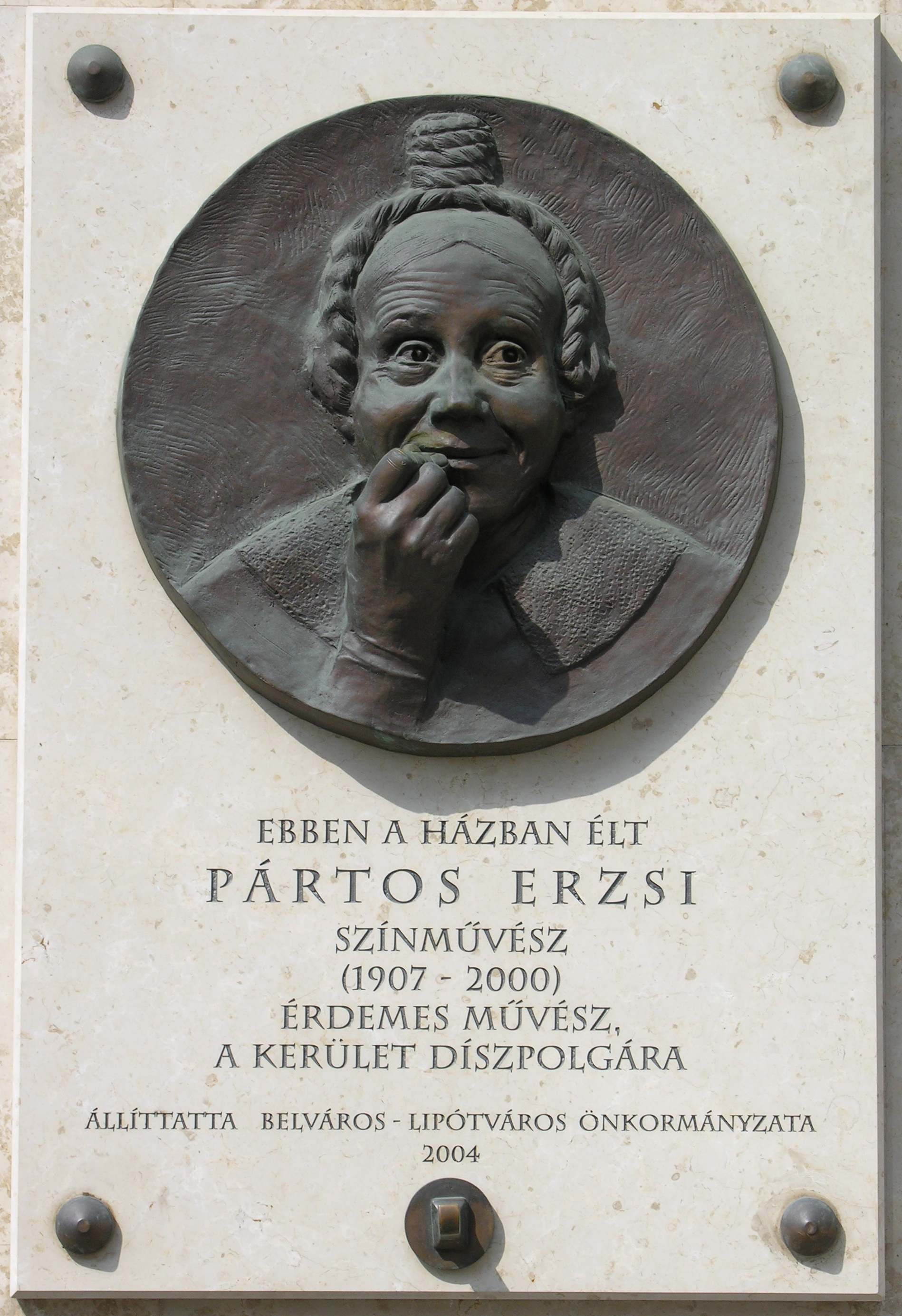 Commemorative plaque of Erzsi Pártos in Budapest District V, Régi posta Street No 2